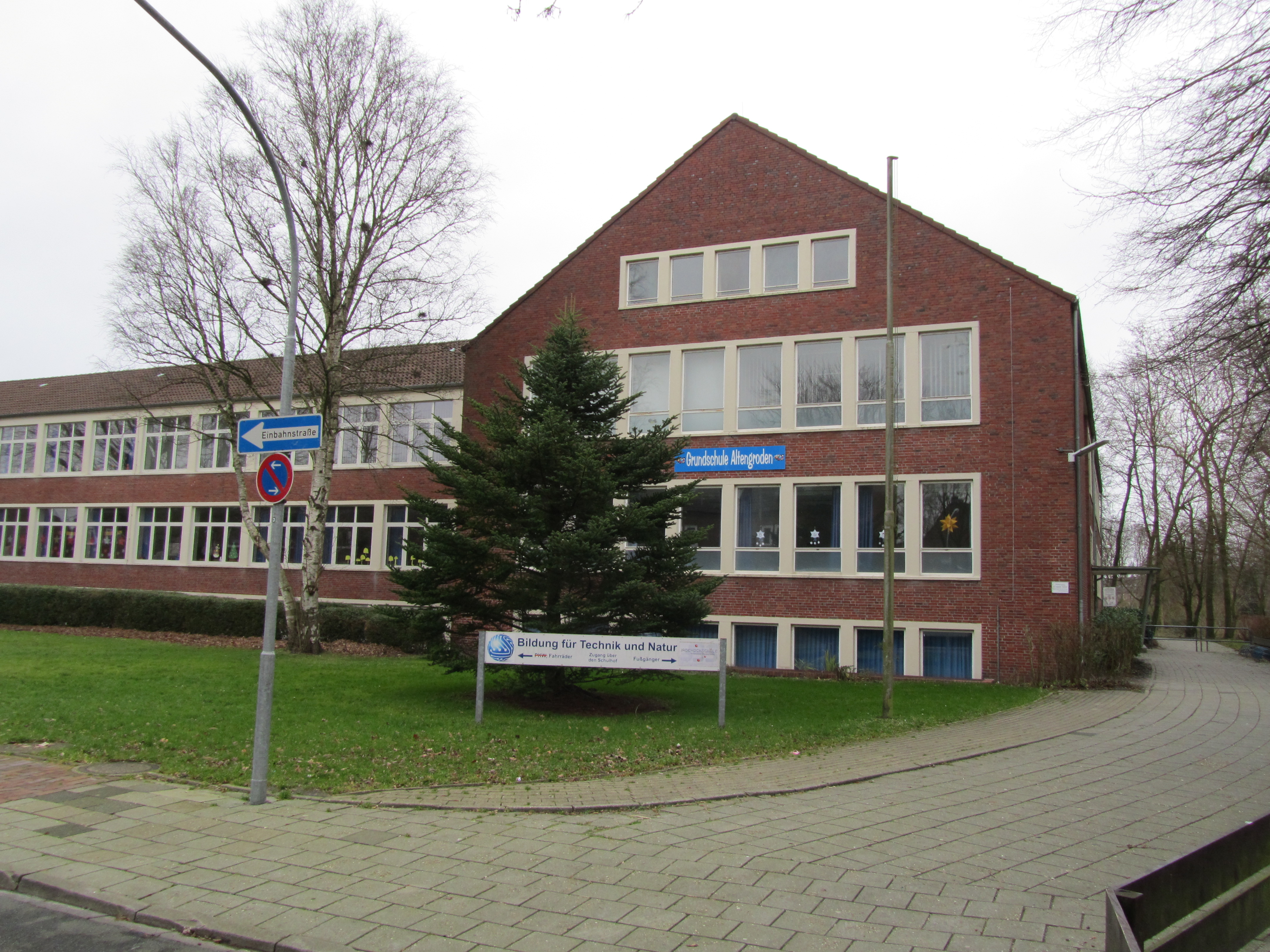 Elementary school Altengroden, Wilhelmshaven, Germany.